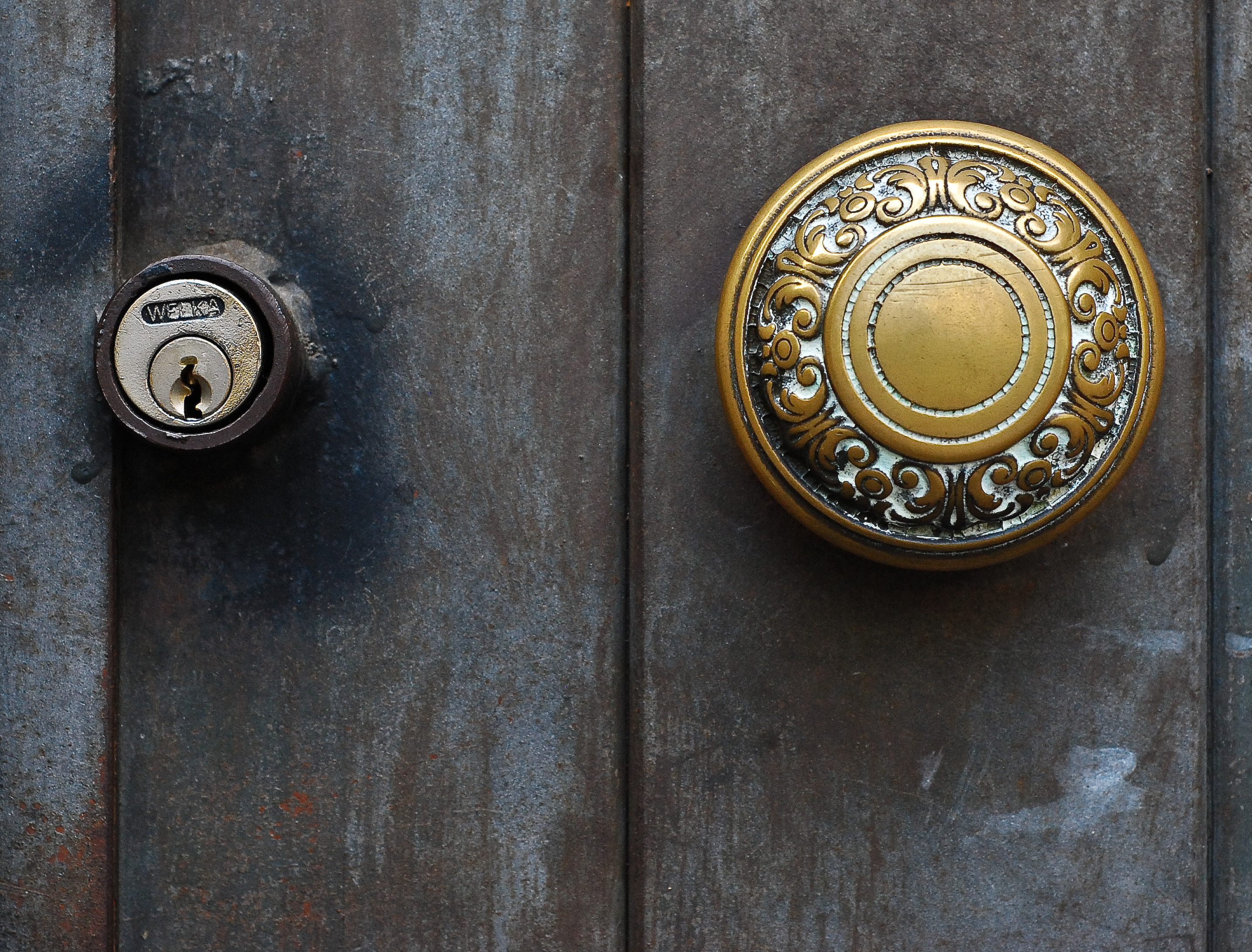 Catania, Sicily, Italy